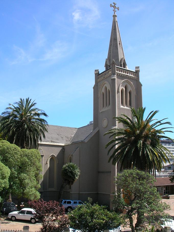 View of a church on the south end of Long Street in Cape Town, South Africa. Camera is pointing north (Long Street runs from the southwest to the northeast).